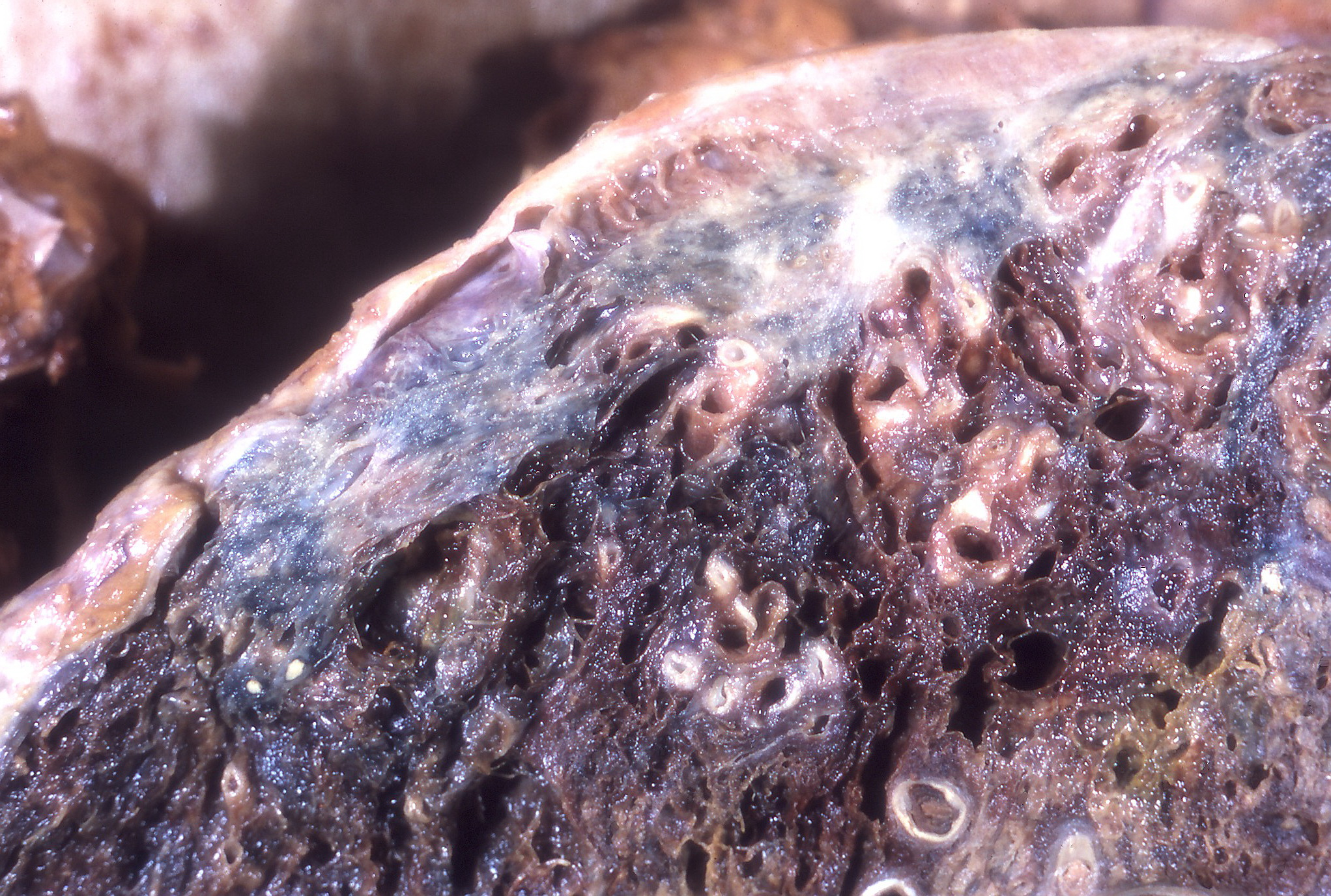 This is an example of pericicitricial emphysema occurring adjacent to an apical scar/apical cap. The overlying pleura is fibrotic and thickened.